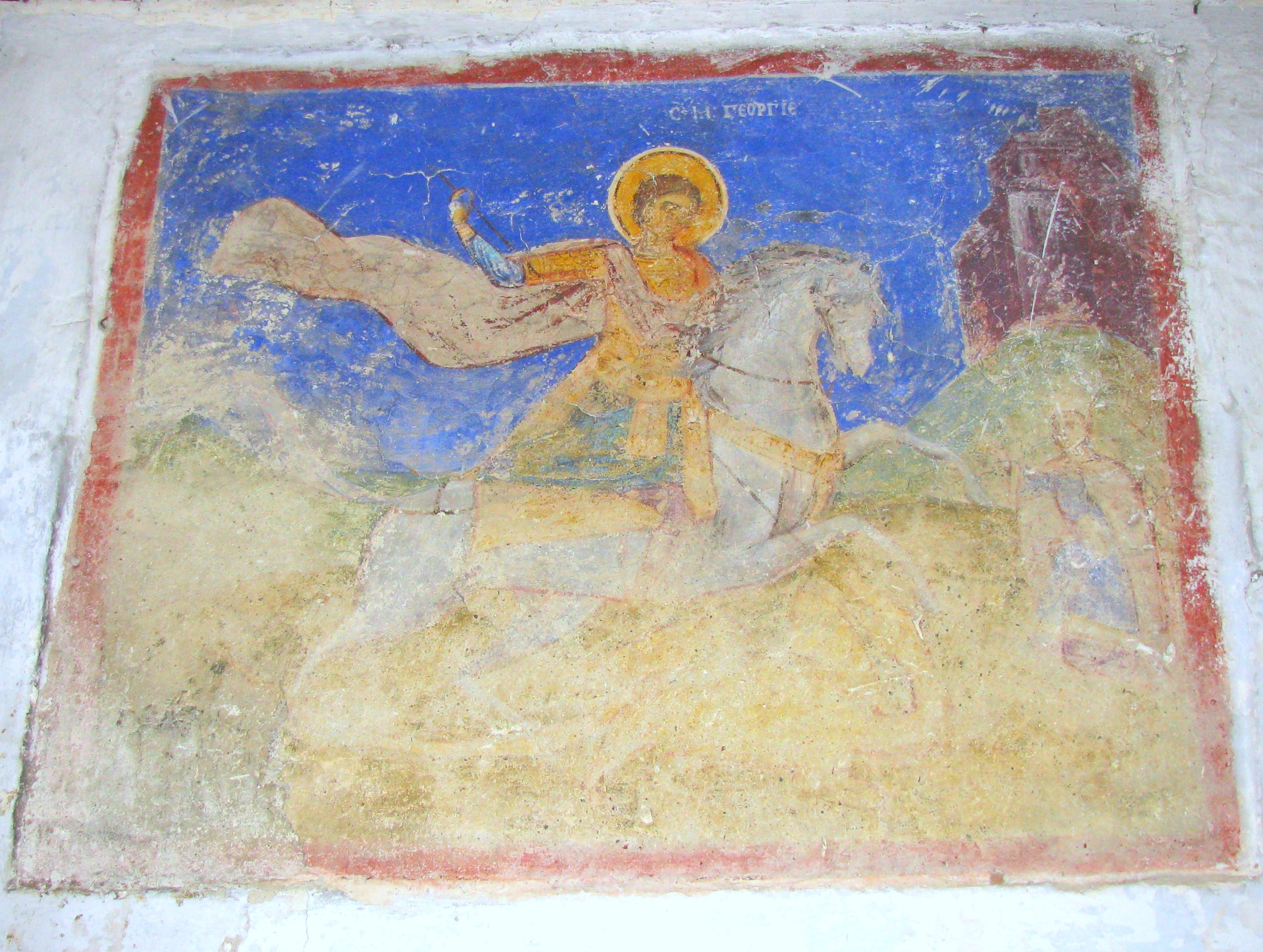 Wooden church in Bascov, Argeș County, Romania